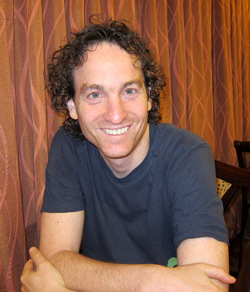 Writer/Director Dani Menkin, Tel-Aviv, 2011